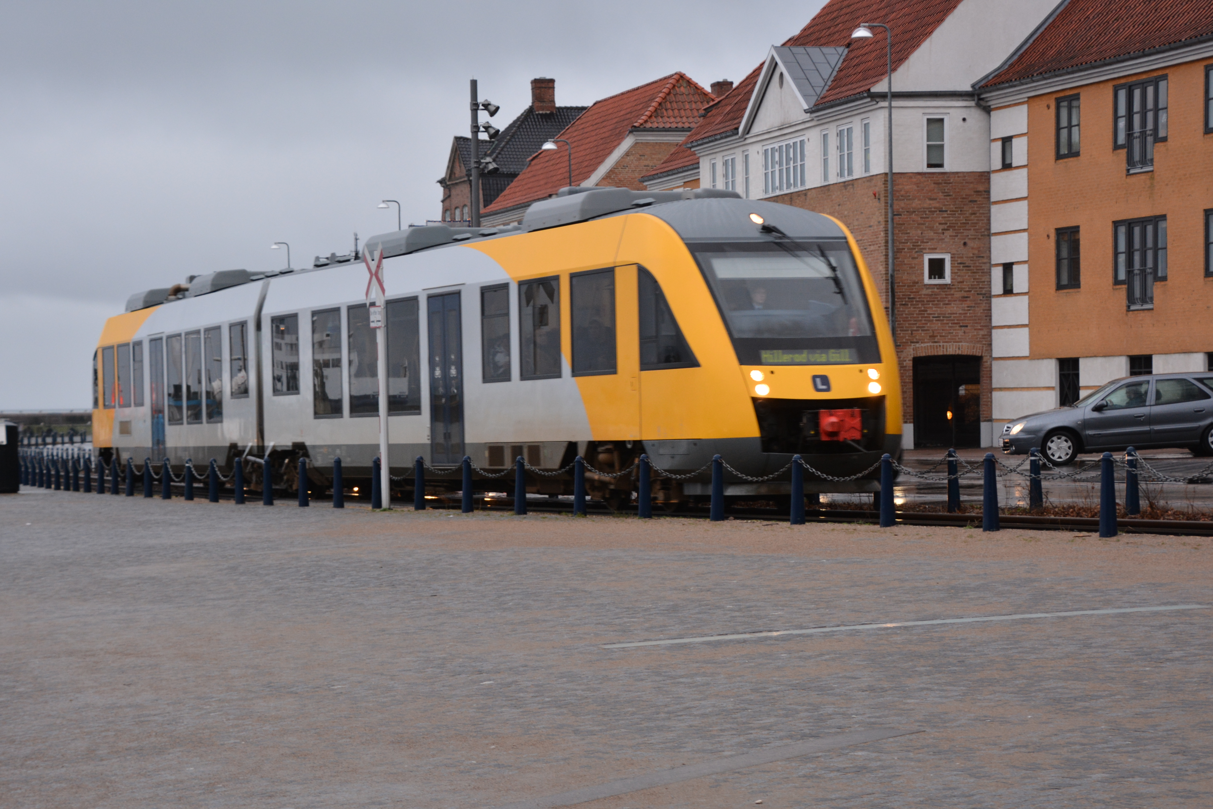 LINT-tåg på Hornbaekbanen på Havnegade i Helsingör